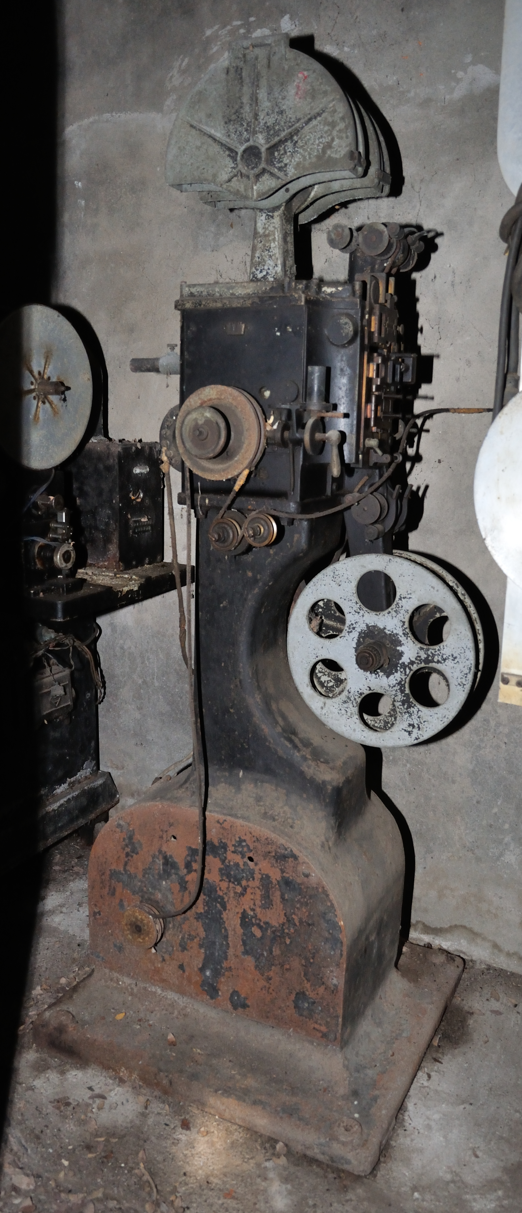 Cinematographic artifact that used in Kolkata.